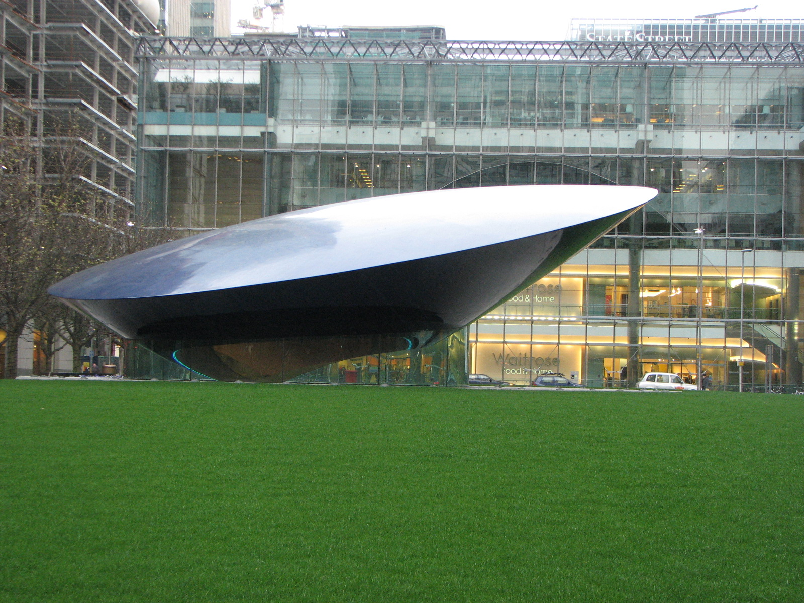 Located in Canada Square in the Canary Wharf area, Ron Arad designed this as both a skylight to the shopping space below as well as a sculptural element.